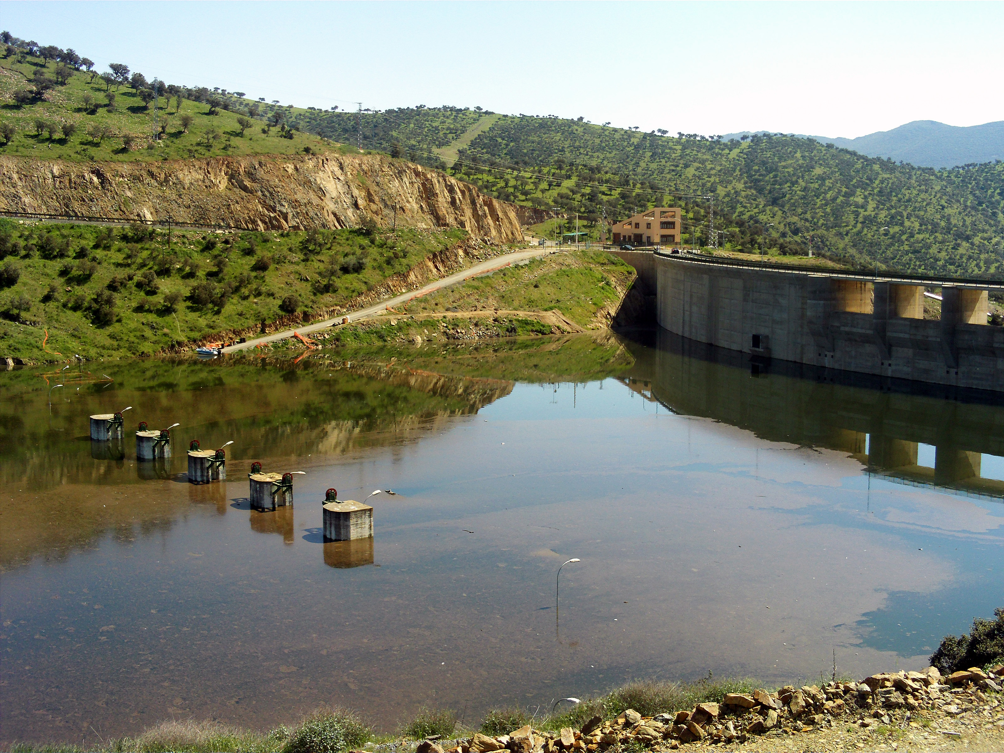 Montoro´dams, Valle de Alcudia, Spain